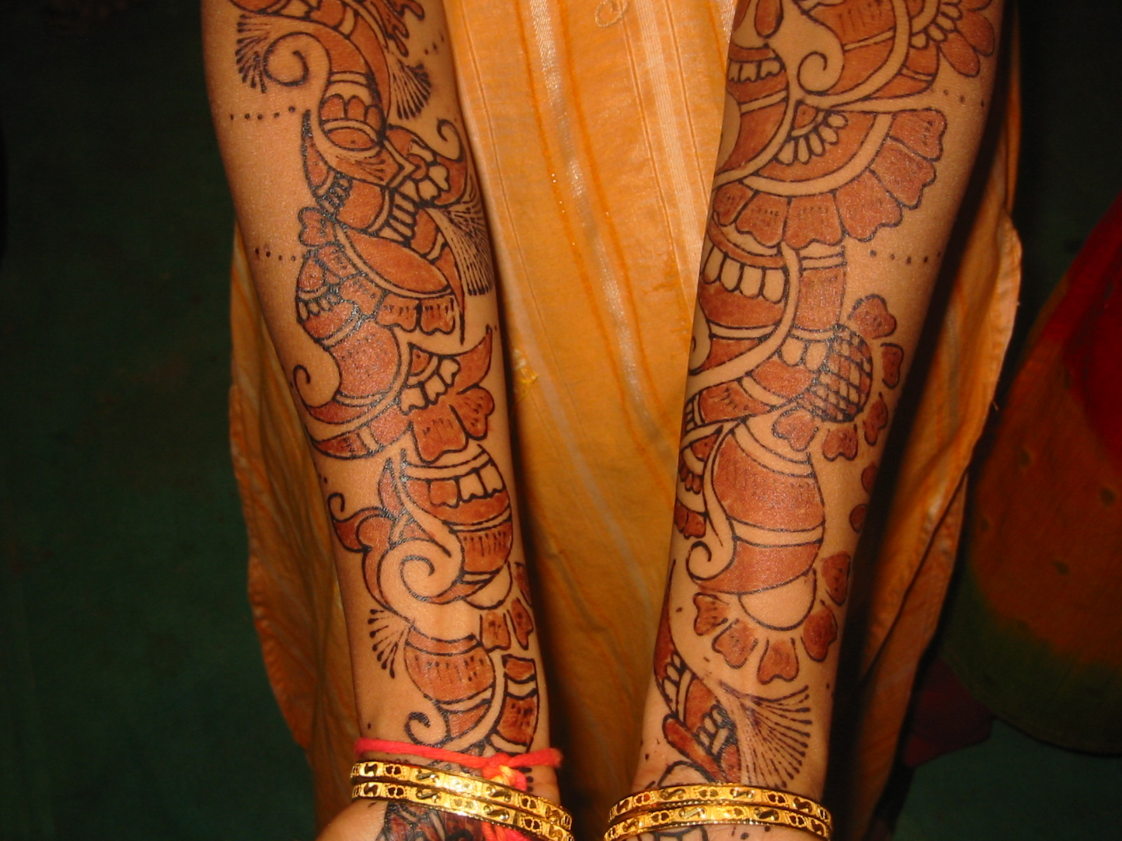 Tattoo with henna, Gujarat, India.